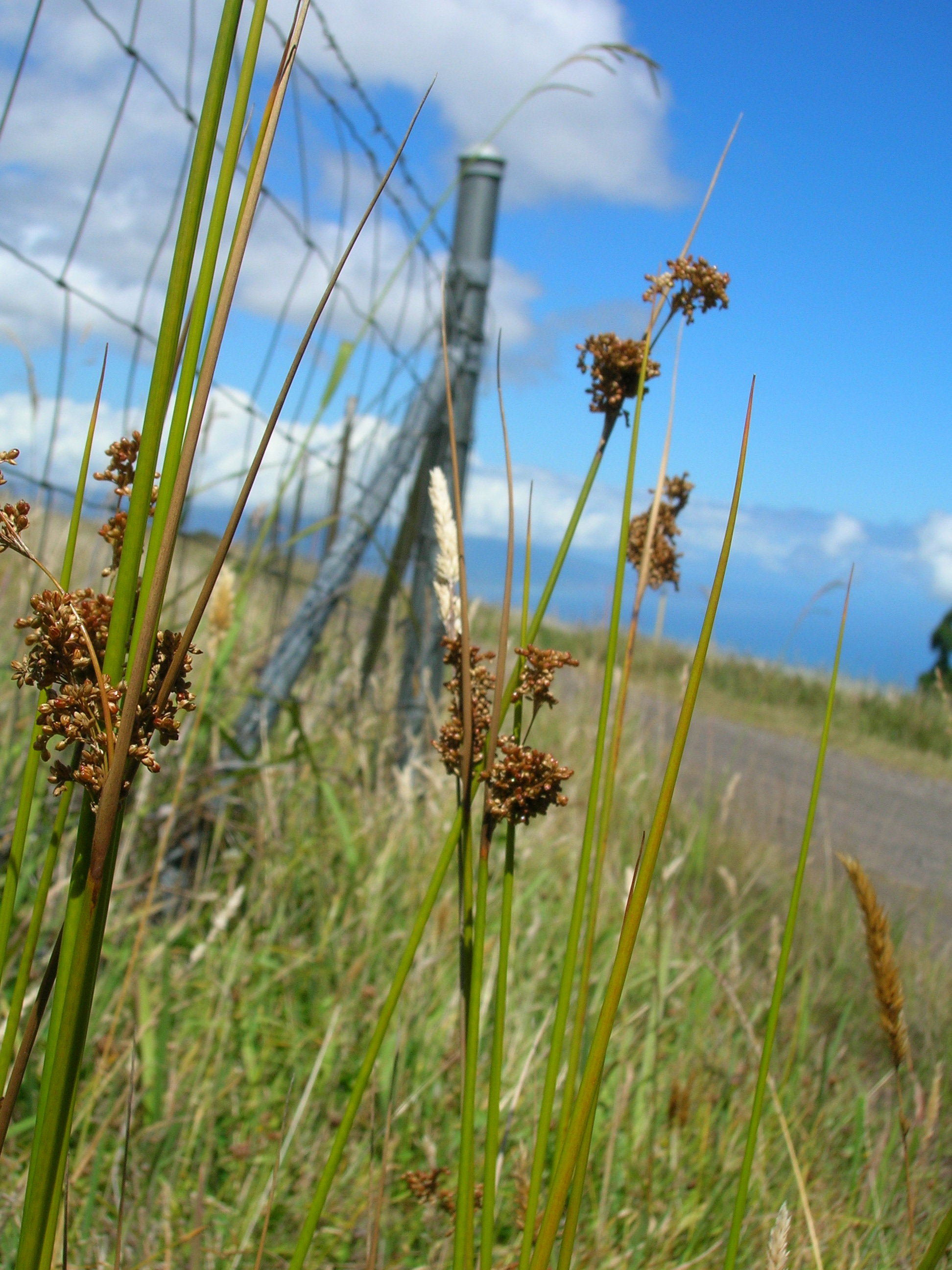 Juncus polyanthemos (seeds). Location: Maui, Kahakapao Gulch